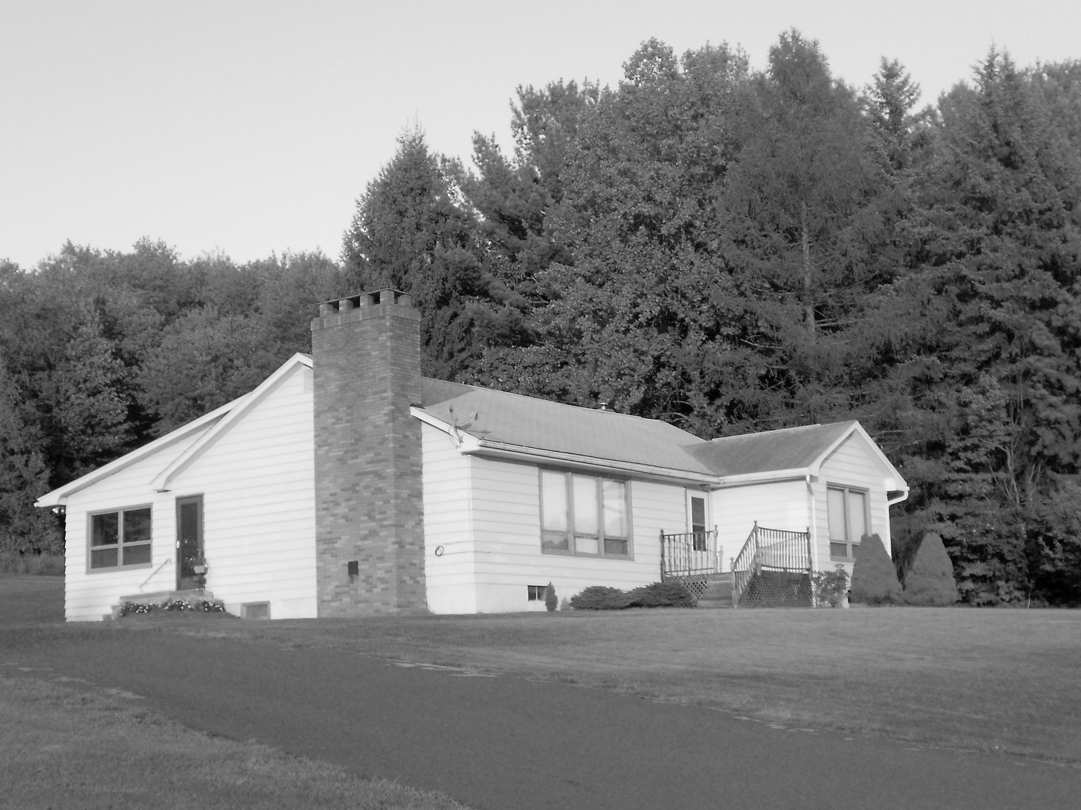 House in Carbondale Township, Lackawanna County, Pennsylvania. This house is located to the northeat of the borough of Carbondale along Business US 6, near its intersection with US 6